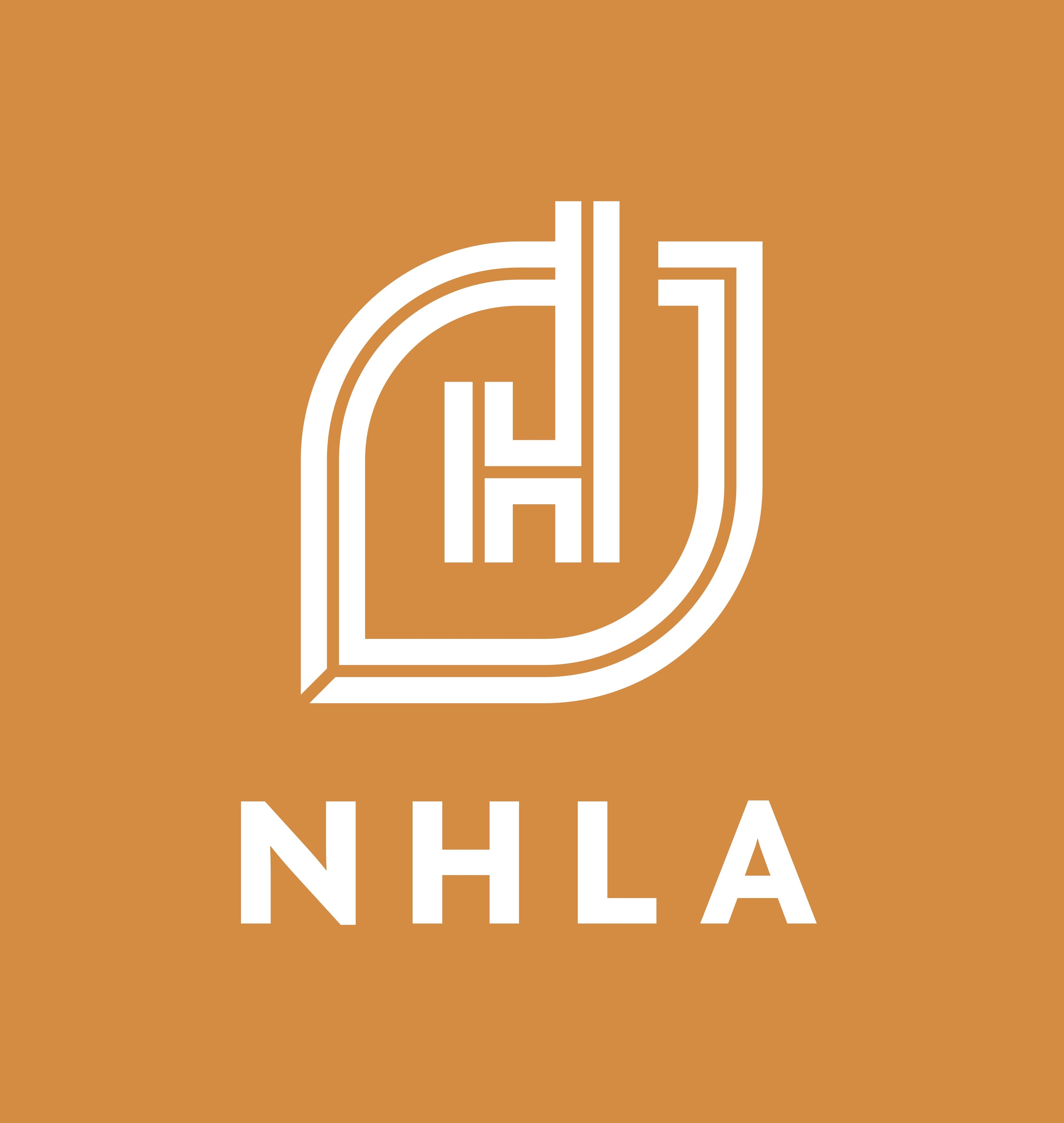 National Hardwood Lumber Association Official Logo